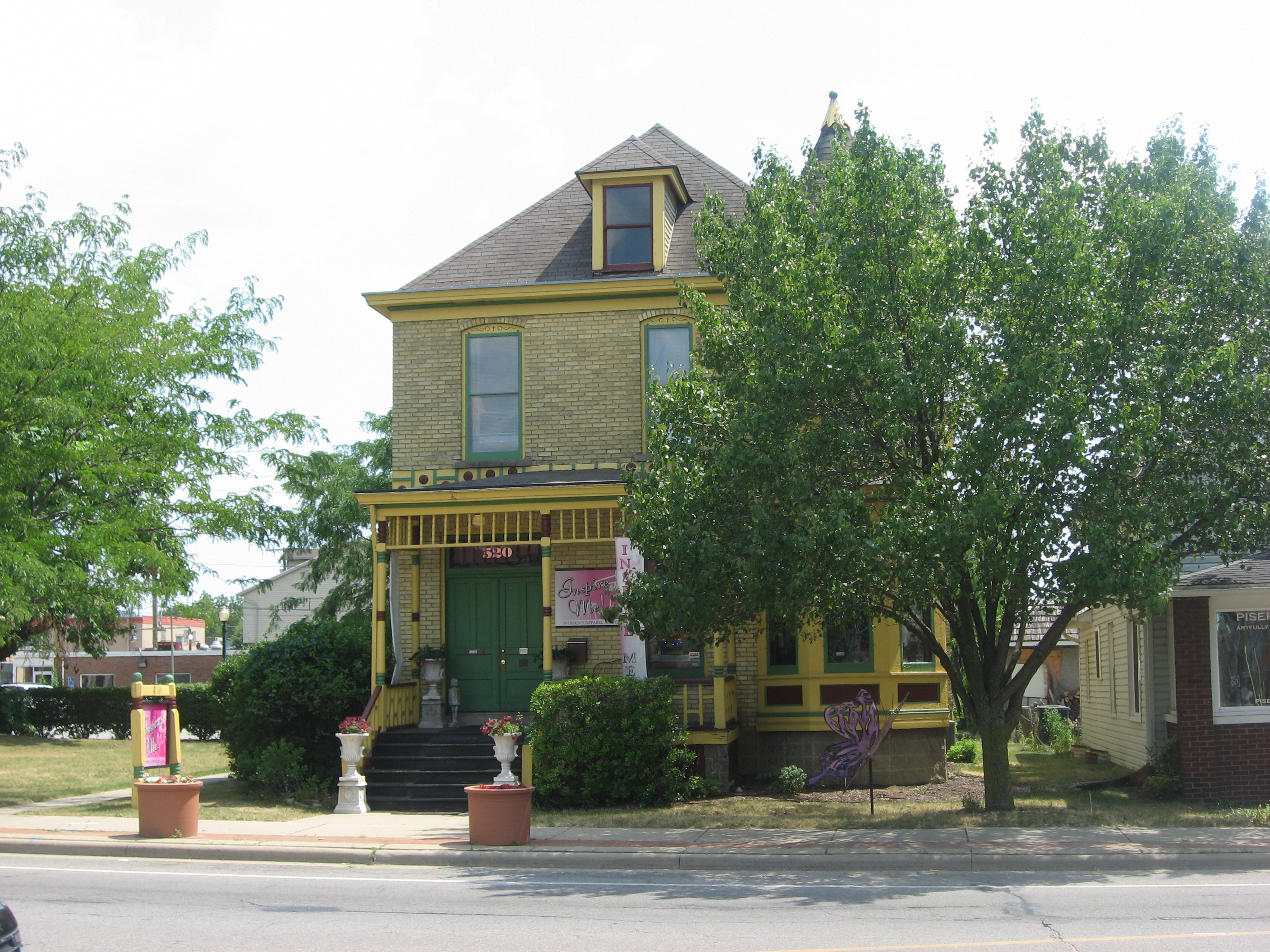 Front of the Dille-Probst House, located at 520 E. Colfax Avenue in South Bend, Indiana, United States. Built in 1888, it is listed on the National Register of Historic Places.